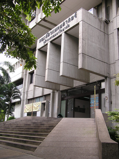 Faculty of Veterinary Science, Chulalongkorn university, Bangkok, Thailand